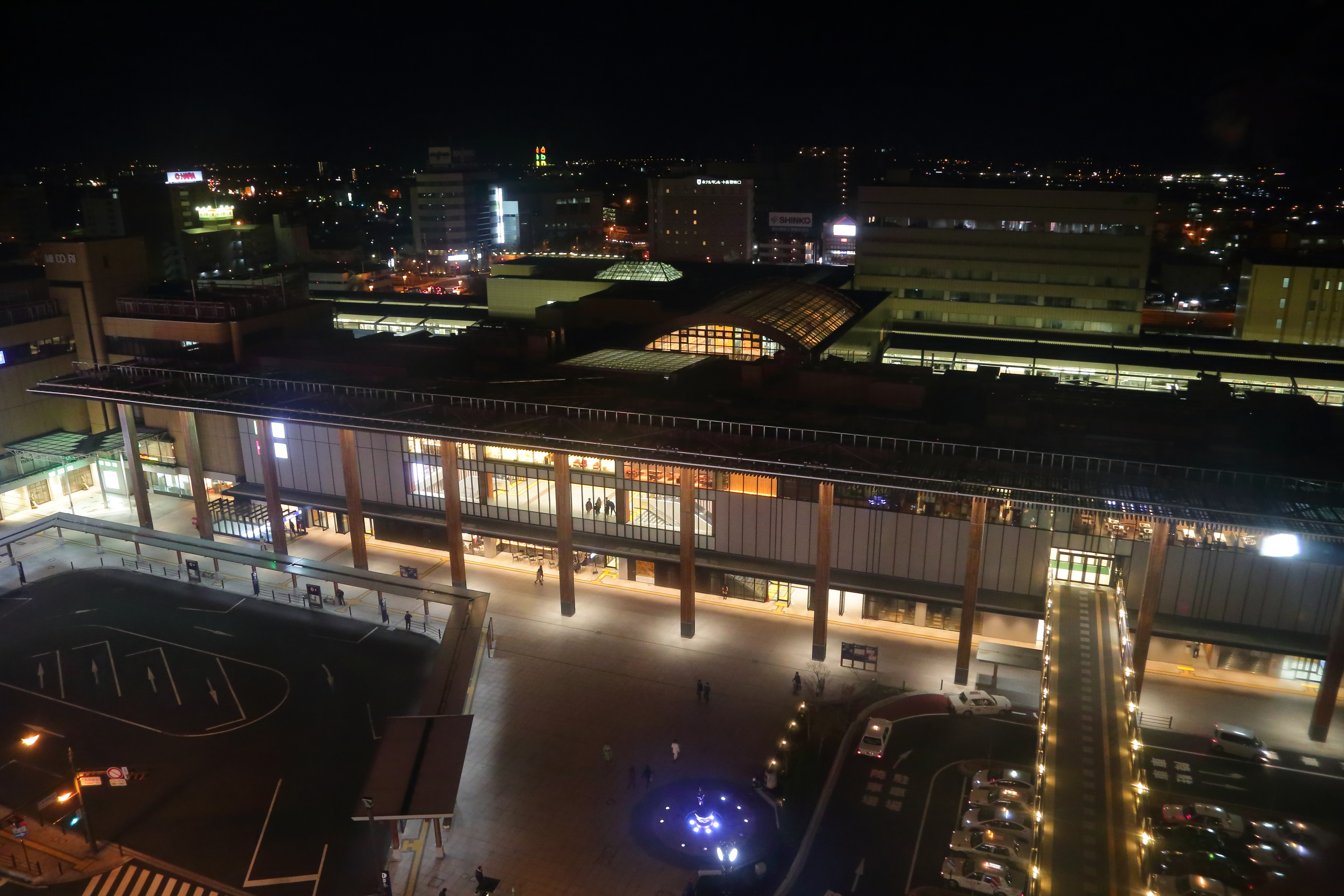 Zenkoji Entrance, Nagano Sta., Japan